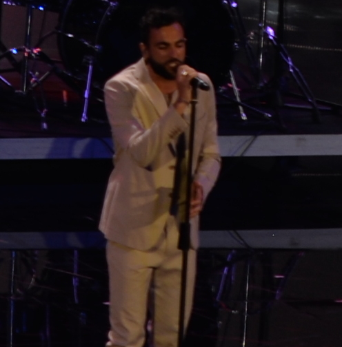 Marco Mengoni during the Wind Music Awards 2016 ceremony at Verona Arena